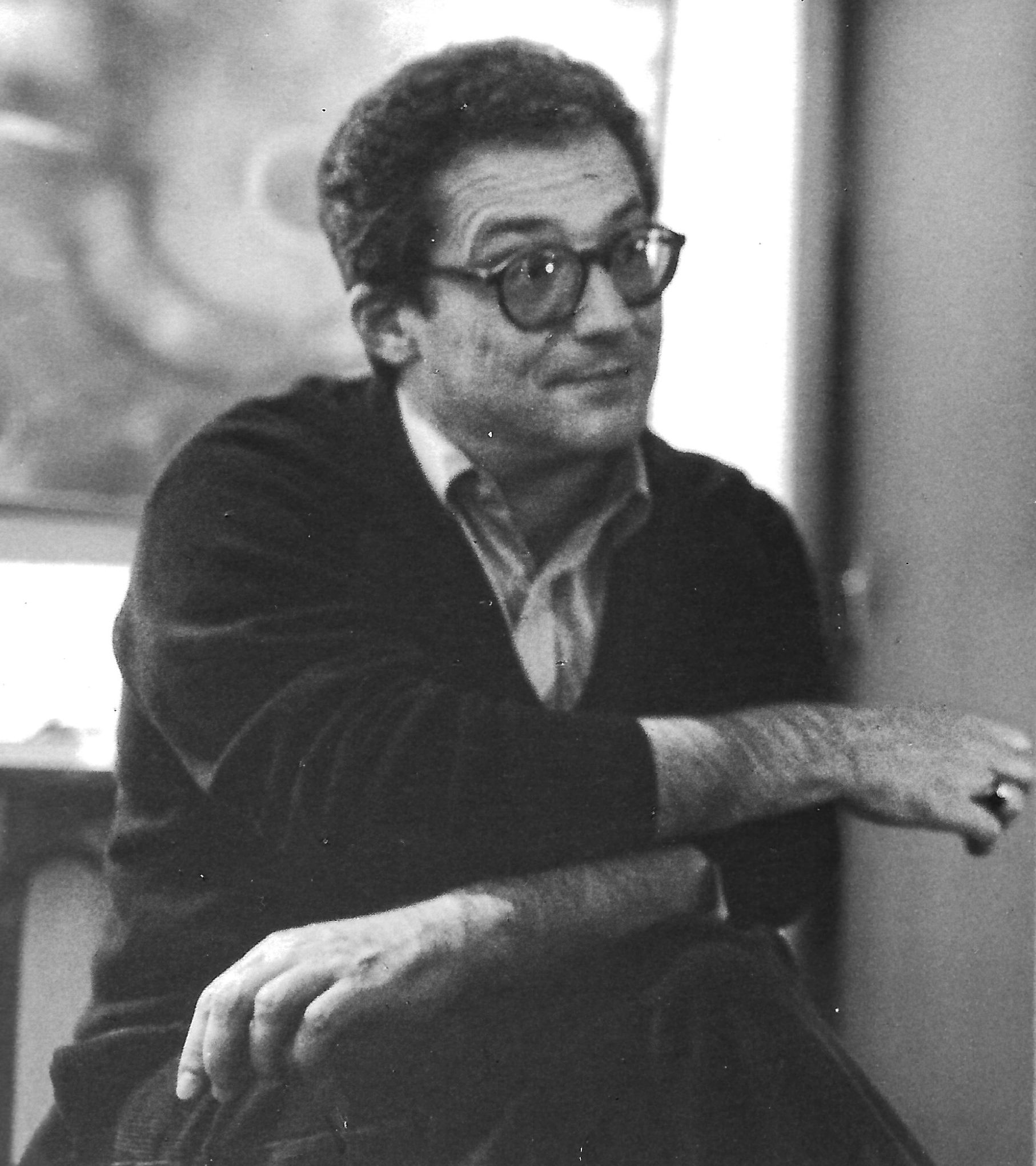 Poet, essayist, translator